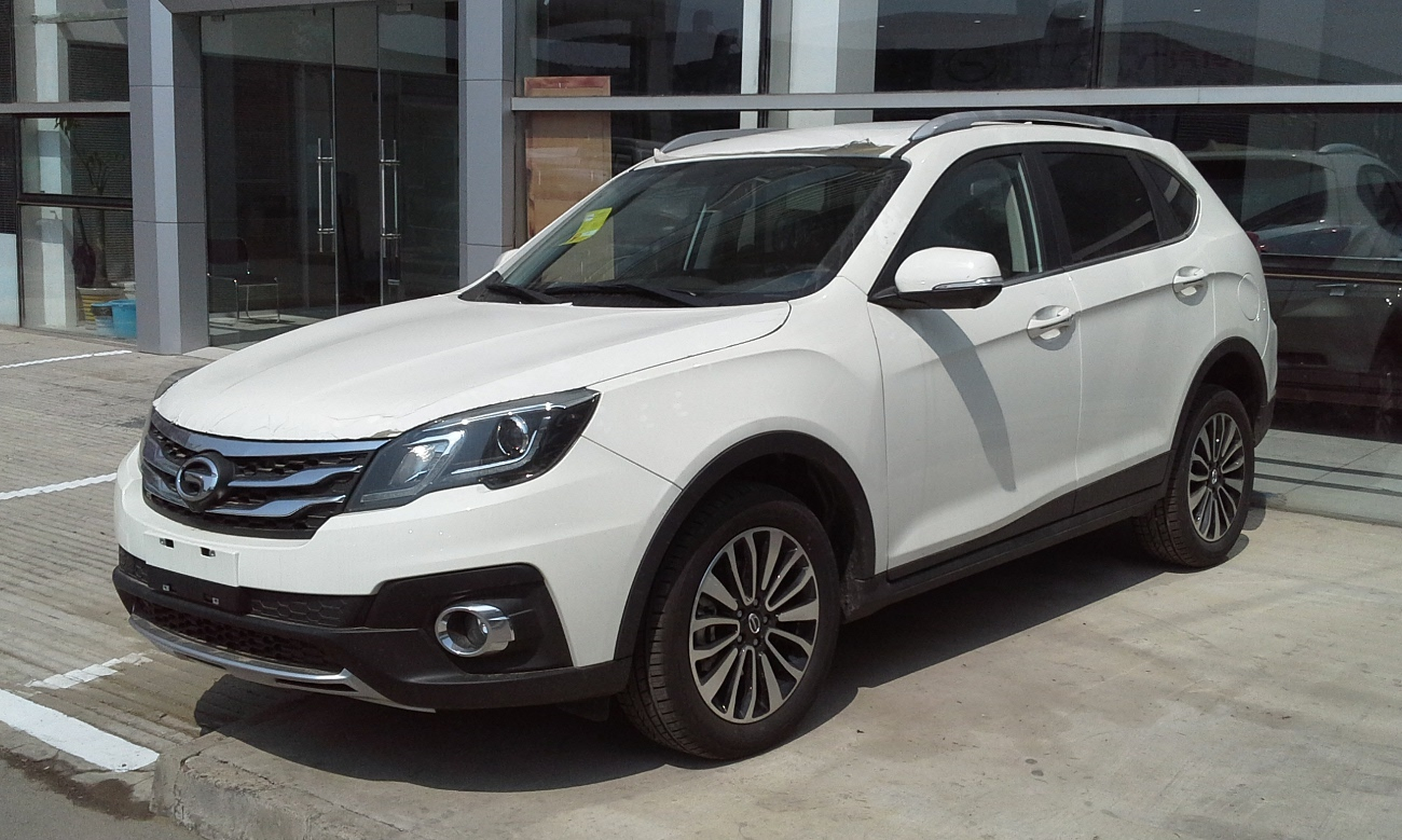 GAC Trumpchi GS5 Super photographed in Beijing, China.